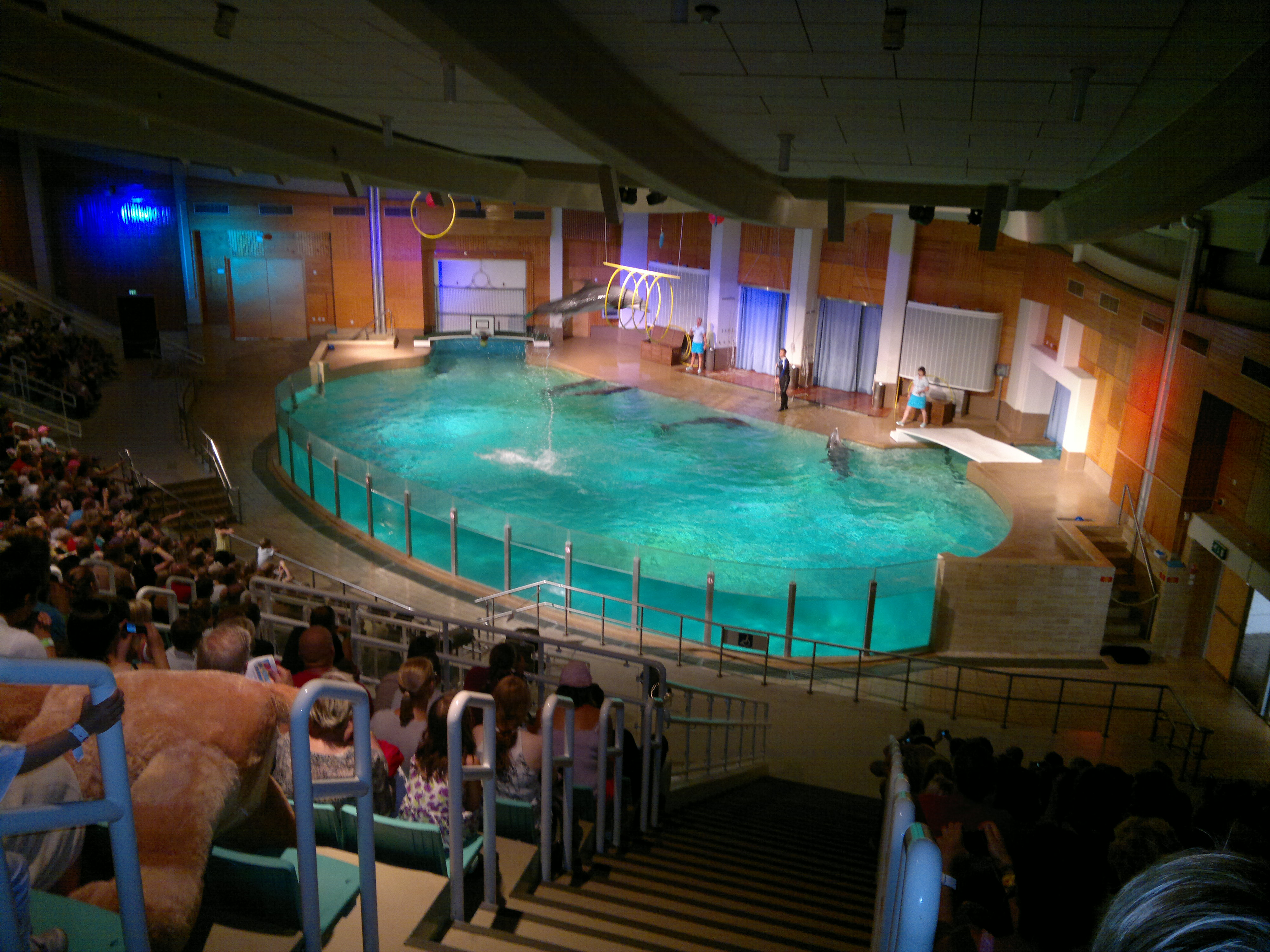 Dolphinarium at Särkänniemi amusement park in Tampere, Finland.